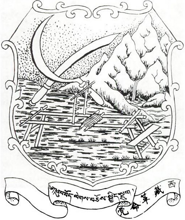 Insignia of the Tibet Improvement Party